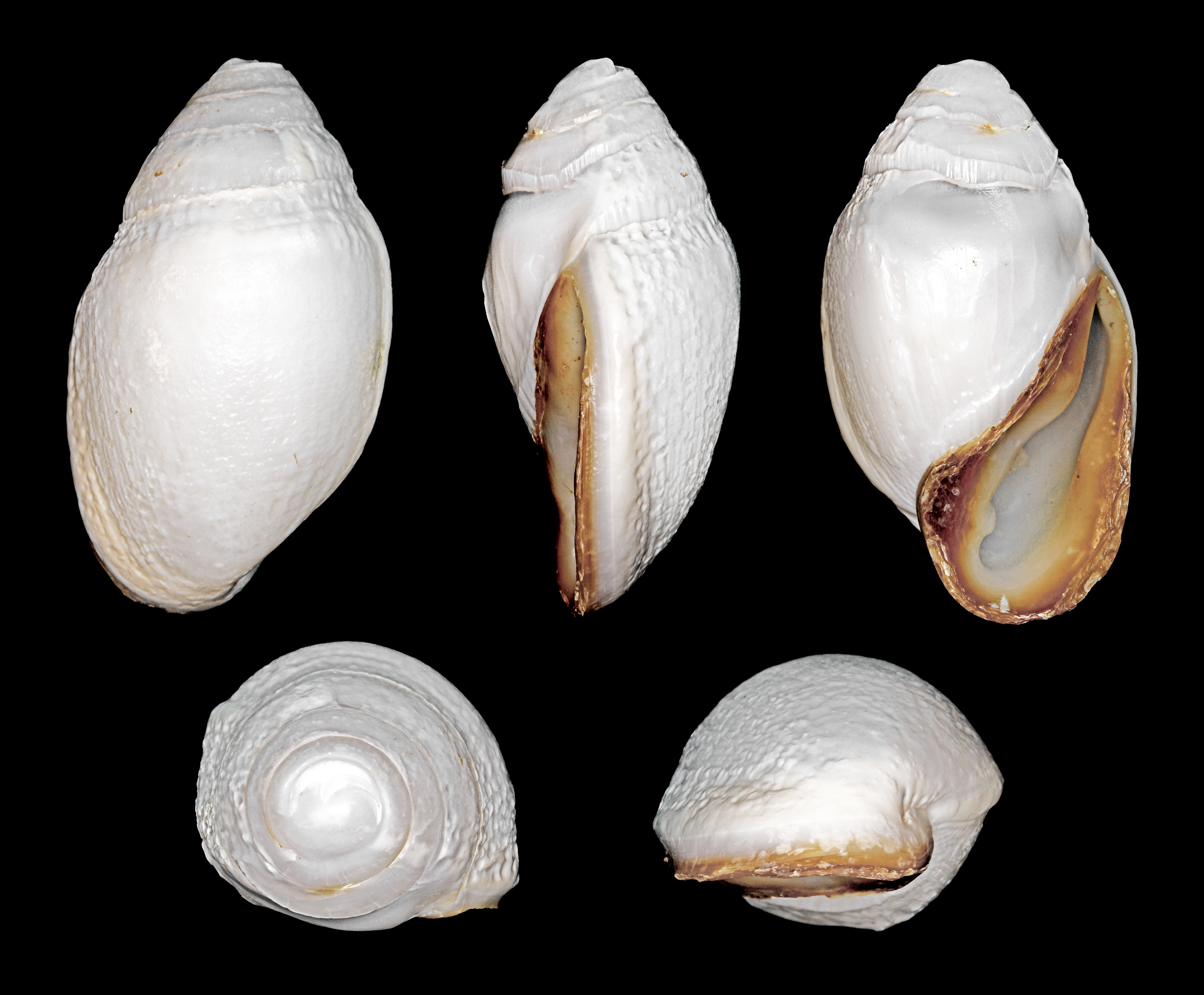 Midas' Ear Cassidula; Length 8.5 cm; Originating from the Southwest-Pacific; Shell of own collection, therefore not geocoded. Dorsal, lateral (right side), ventral, back, and front view.